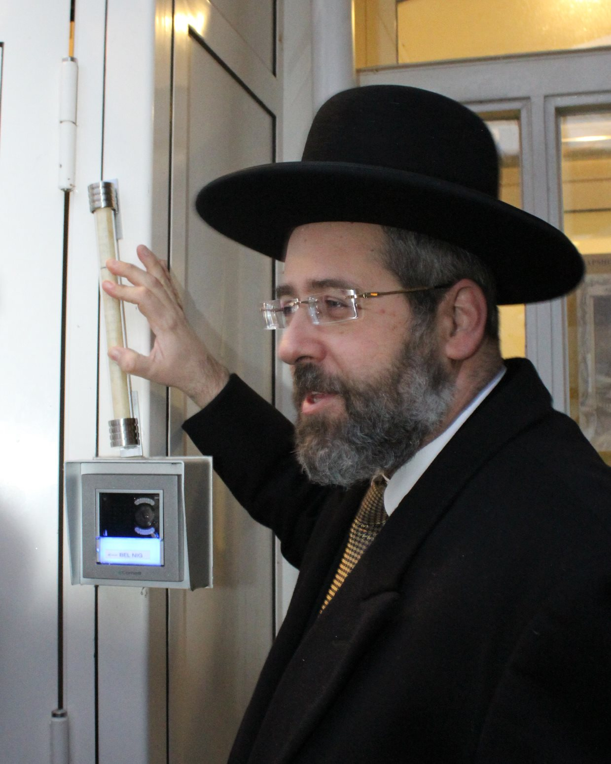 Rabbi David Lau placing the Mezuzah at the CHAJ centre in The Hague.